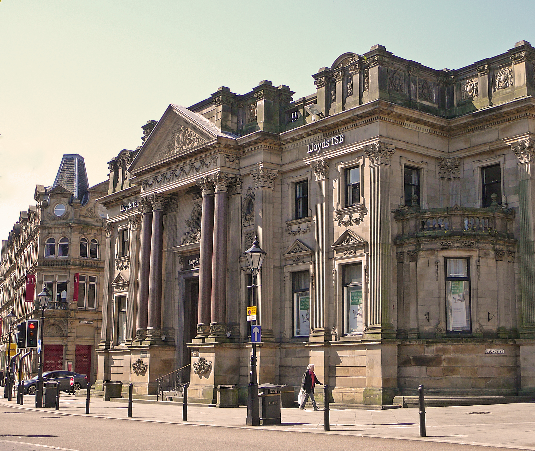 Lloyds Bank in Halifax, West Yorkshire. Taken on Sunday the 31st of May 2009.